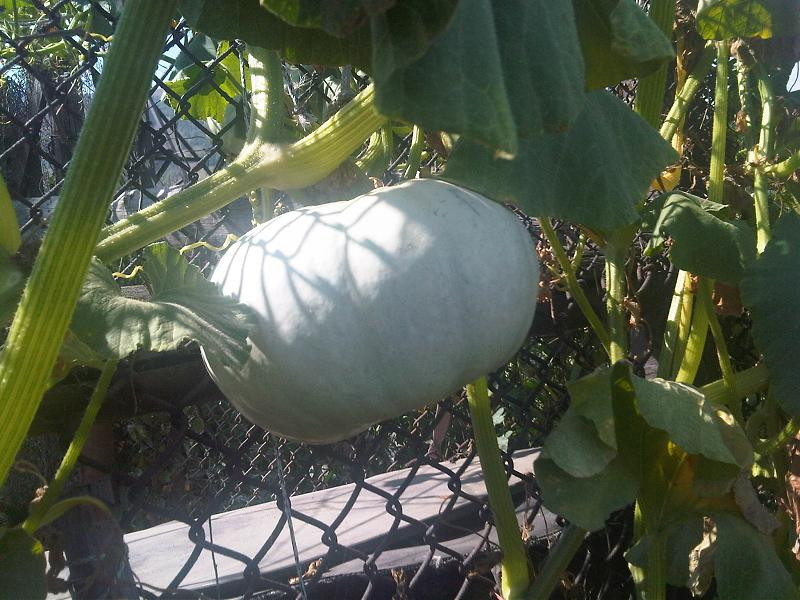 Cucurbita maxima in Lónyaytelep, Transylvania.